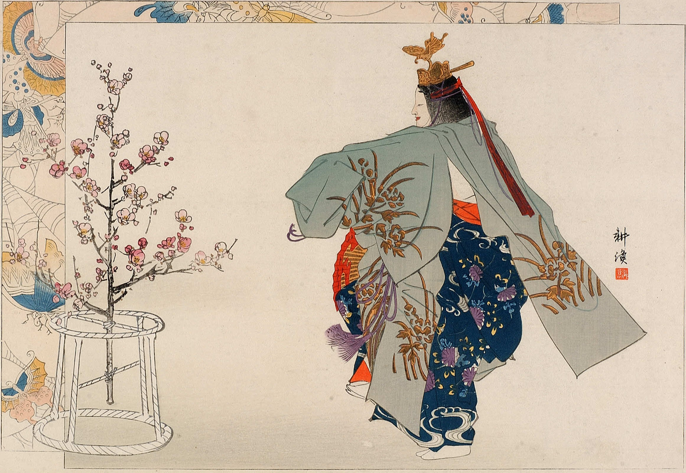 Scene out of Kochô (Nô)